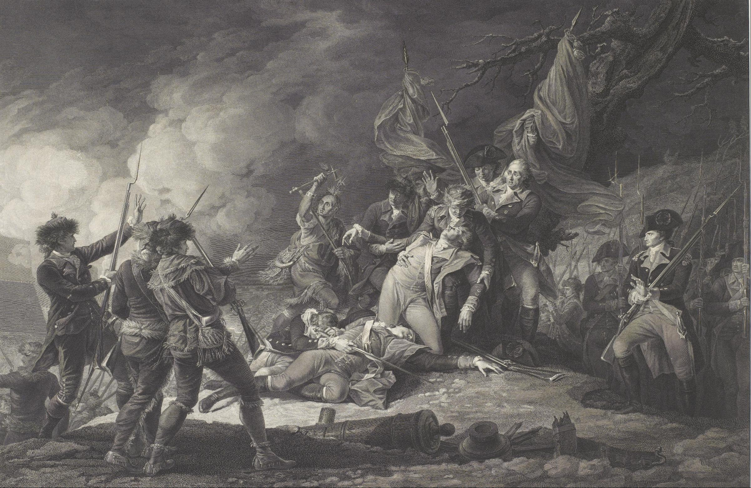 Engraving by Johan Frederik Clemens of The Death of General Montgomery in the Attack on Quebec, December 31, 1775 by John Trumbull.